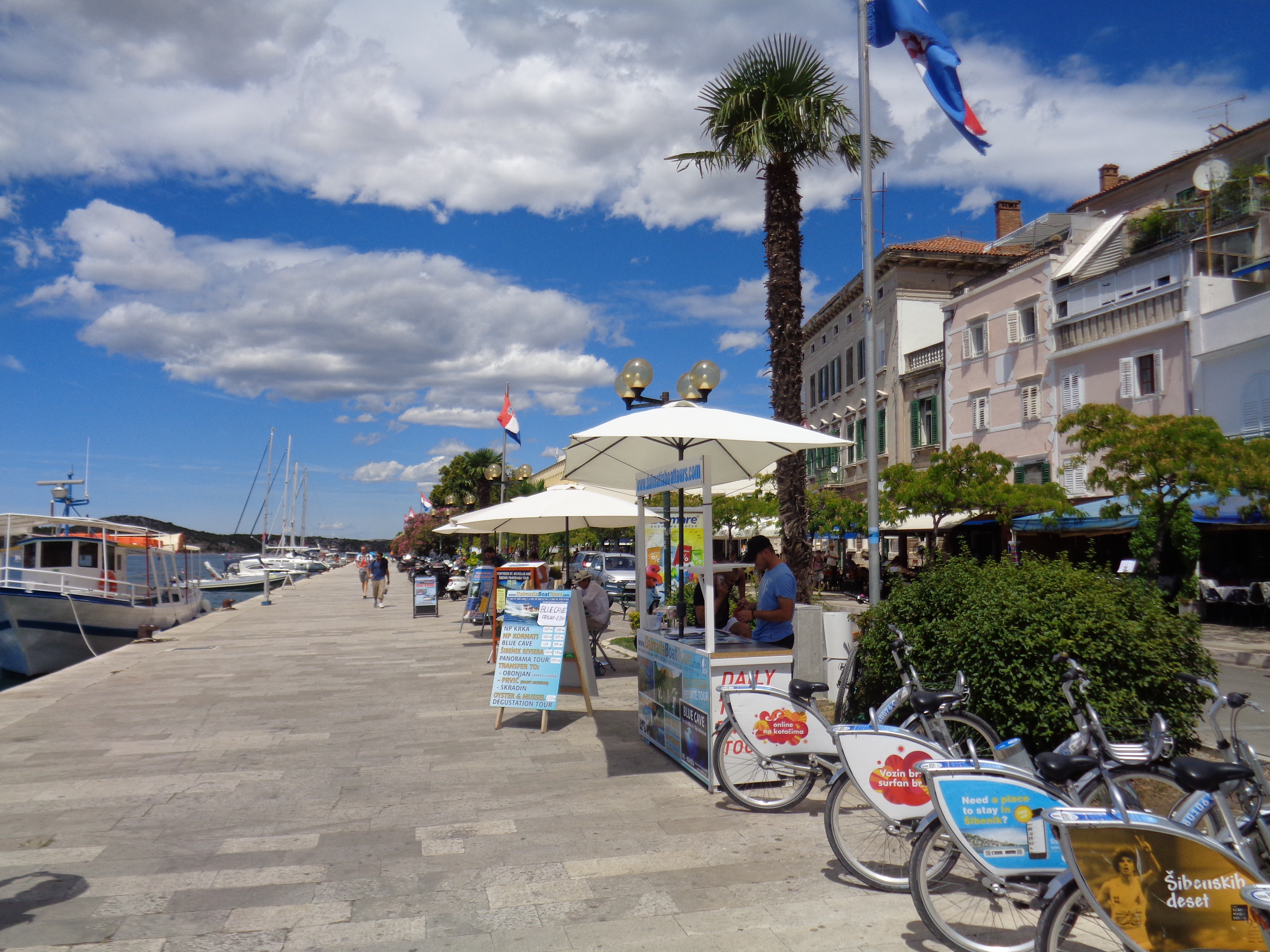 "Riva" waterfront, Šibenik, Croatia